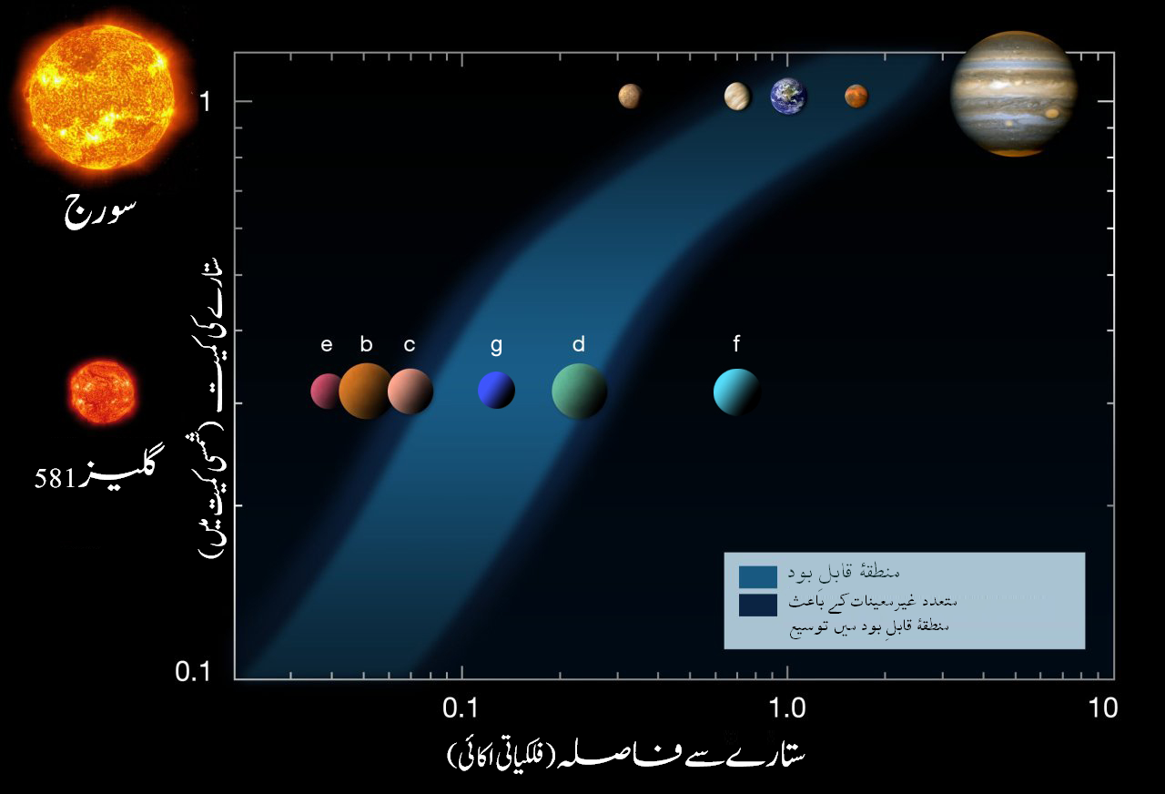 Planetary habitable zones of the Solar System and the Gliese 581 system compared; updated with the 2010 discovery of f and g